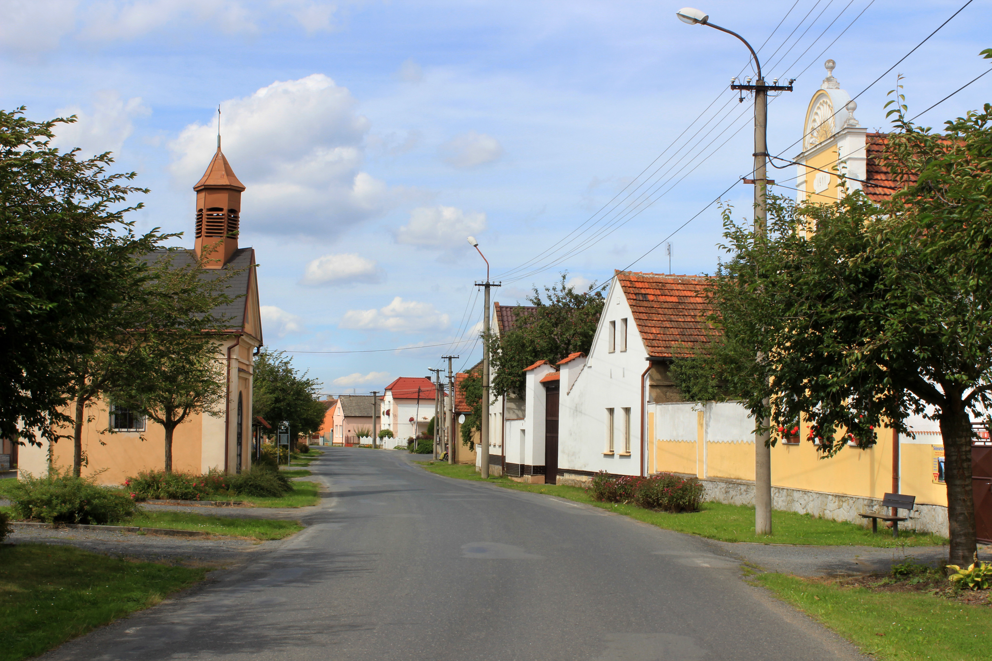 Road No. 185 in Hlohovčice, Czech Republic.